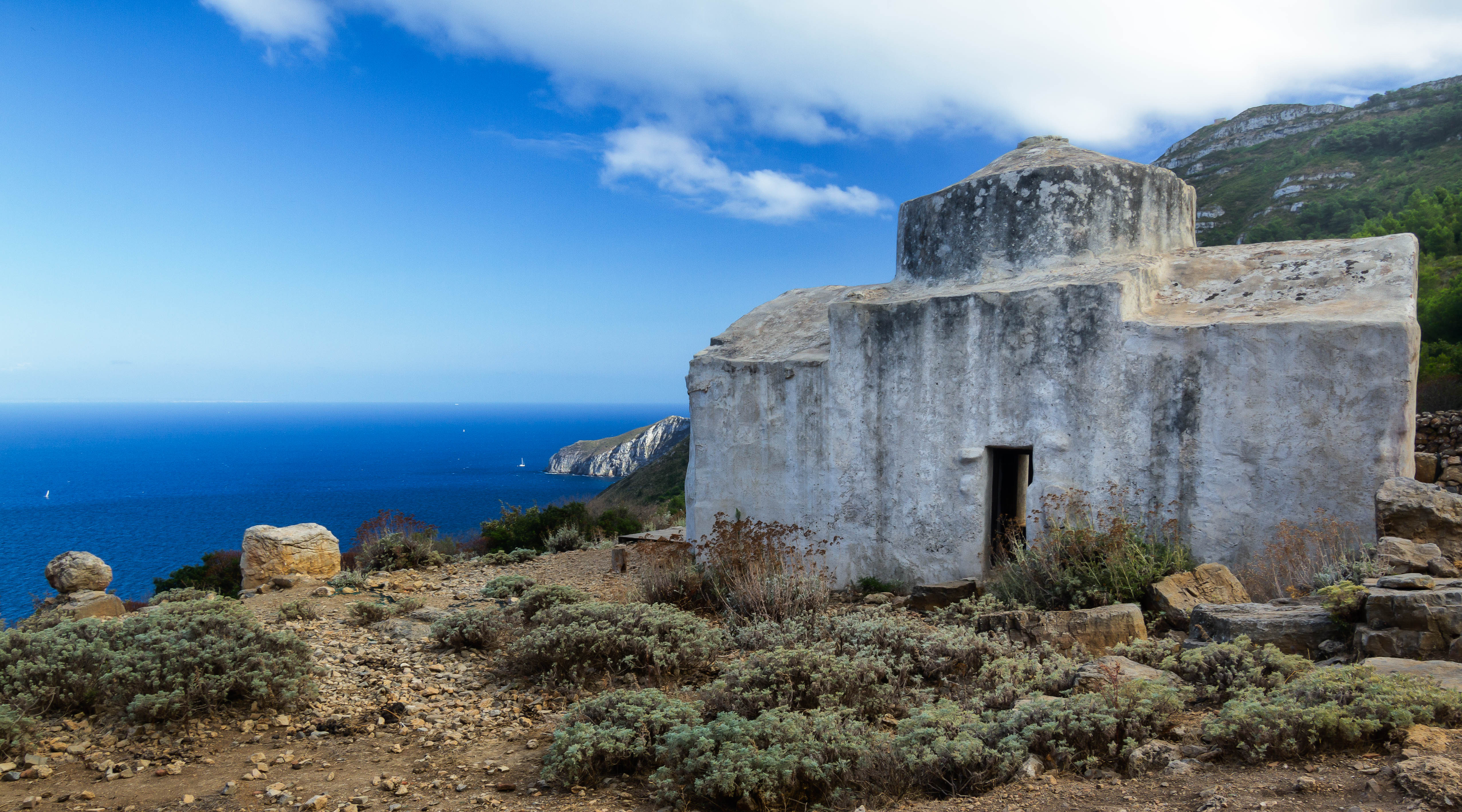 Case Romane is the name of Marettimo's archeological site, where you can also find the little Byzantine church depicted in this shot. The point almost at the centre is called Punta Basano.